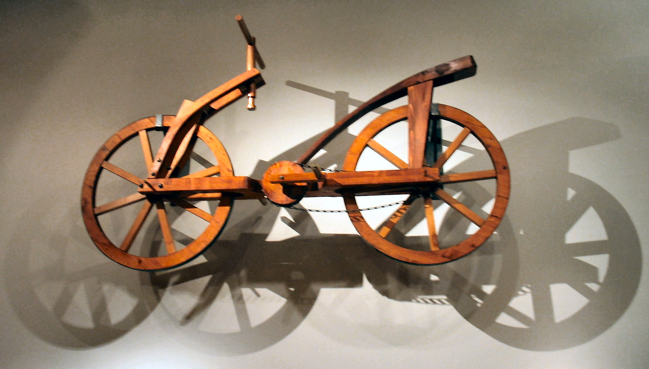 Model made from a drawing said to be from 1493. The authenticity of the drawing is disputed. - The Bicycle is not a project of Leonardo. It was not made by his pupils either. It is a bad drawing added to the codex after the 1800. (Mario Taddei)